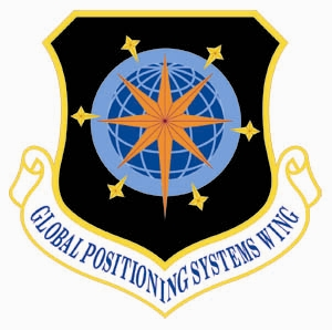 Official logo for NAVSTAR GPS